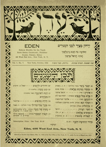 שער גיליון מס' 1 של "עדן", אוקטובר 1924